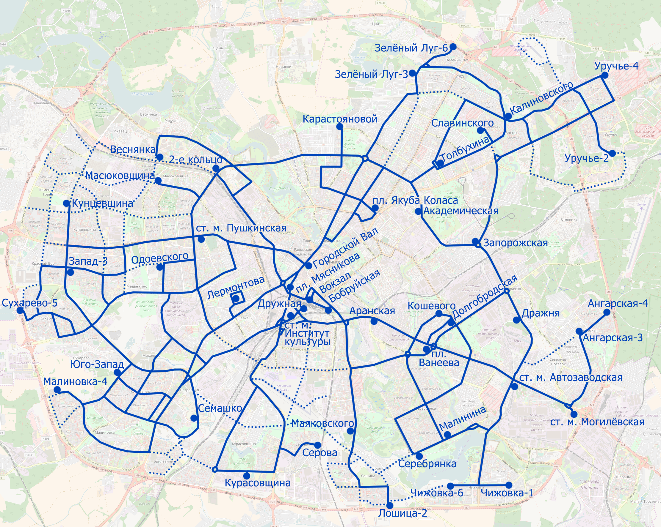 Development plan of Minsk trolleybus network. Planned lines are in blue dots. Source of data for the plan: This map may be incomplete, and may contain errors. Don't rely solely on it for navigation.